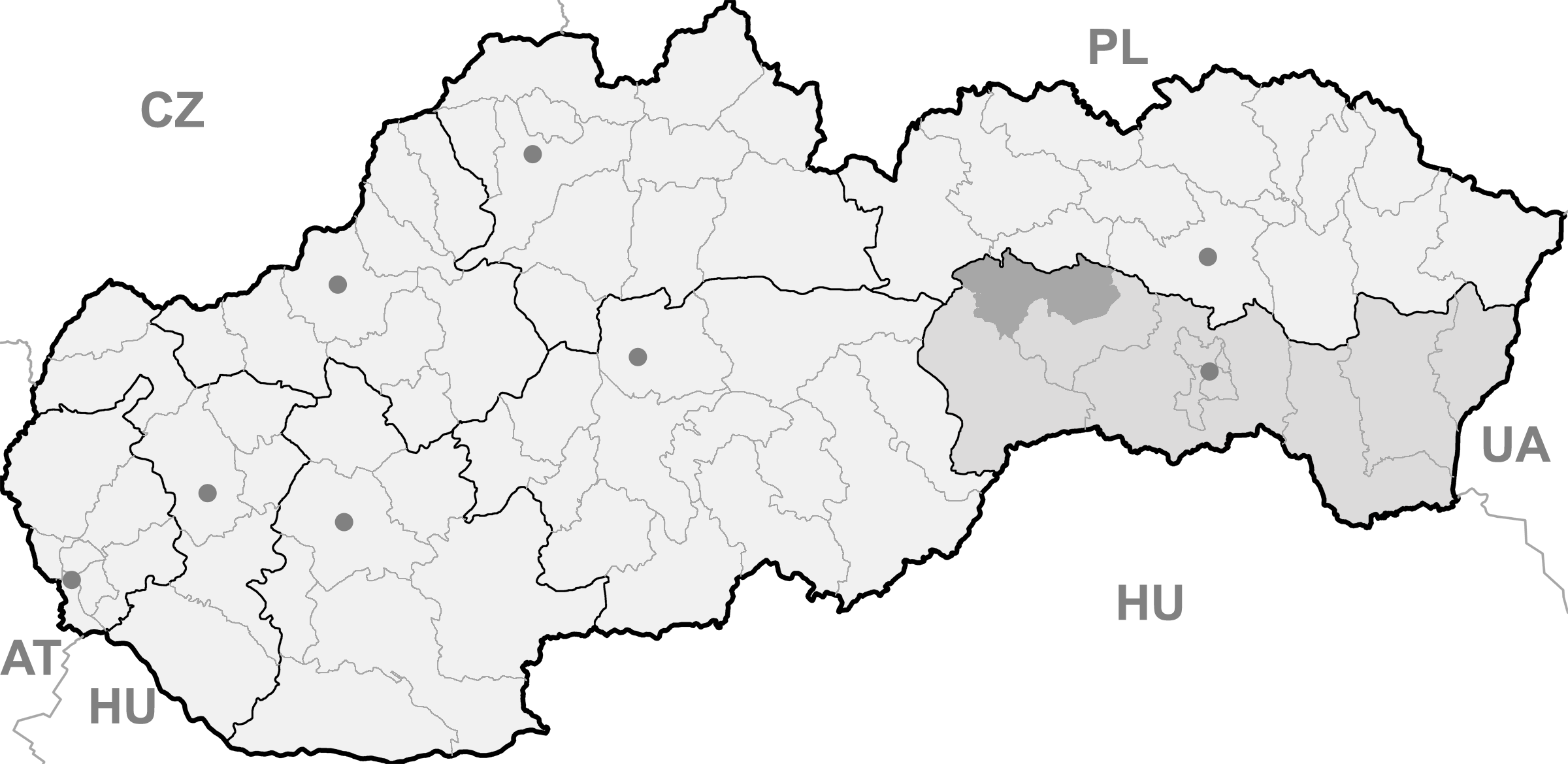 Map of Slovakia, Spisska Nová Ves district and Kosice region highlighted